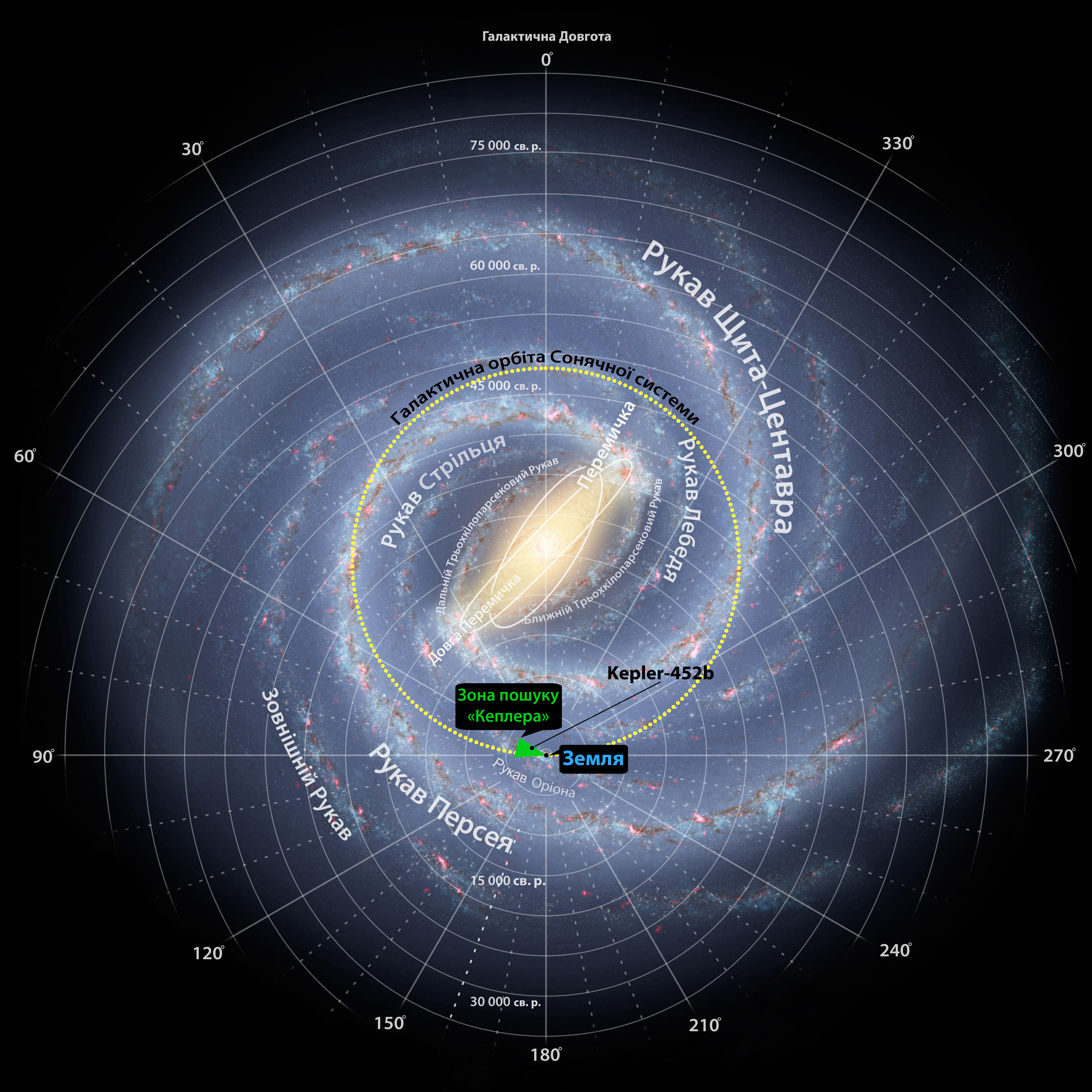 Exoplanet Kepler-452b on the Milky Way map.